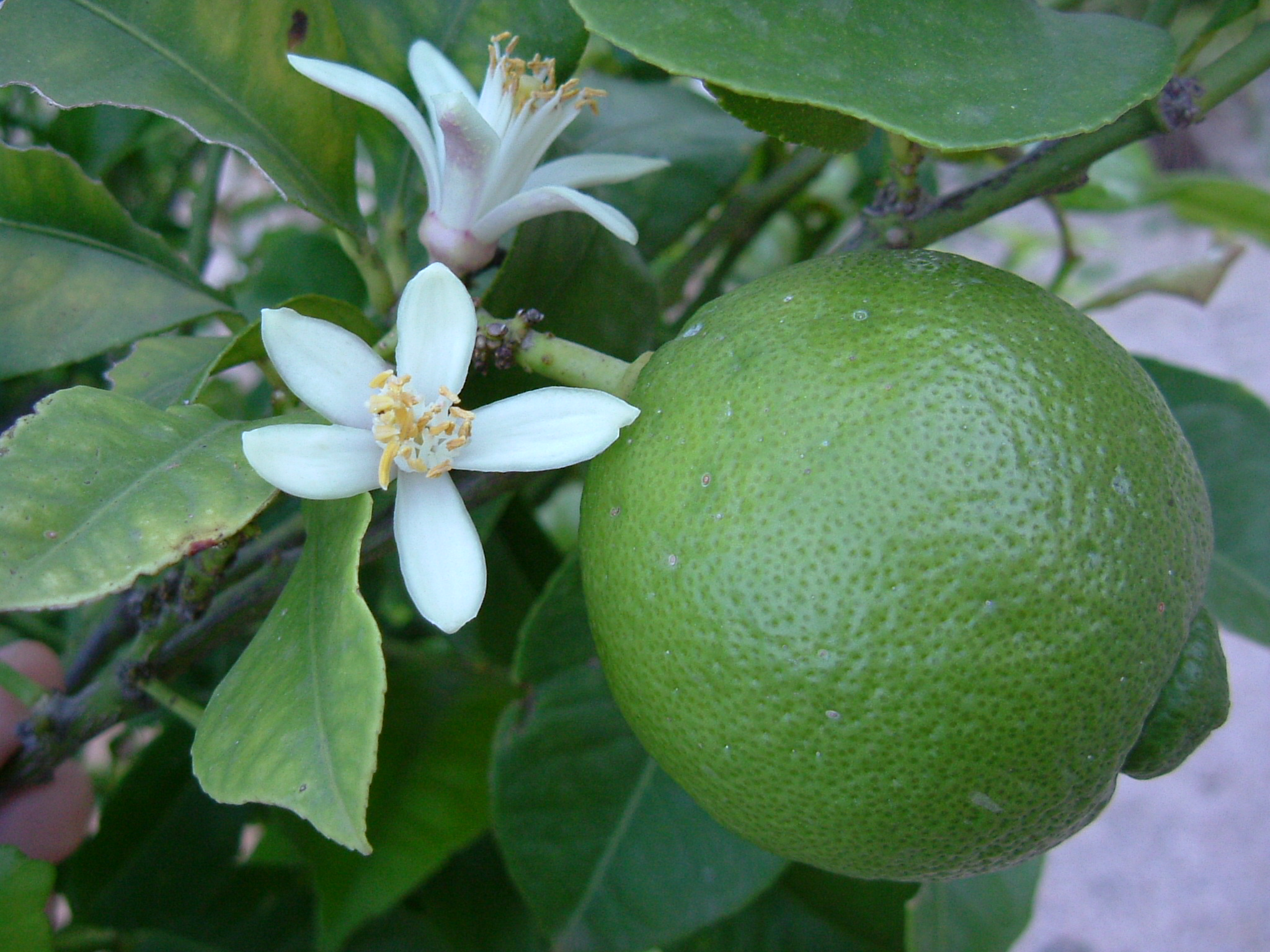 Lime and blossom growing in Valencia, south Spain. Photo taken November 2007.